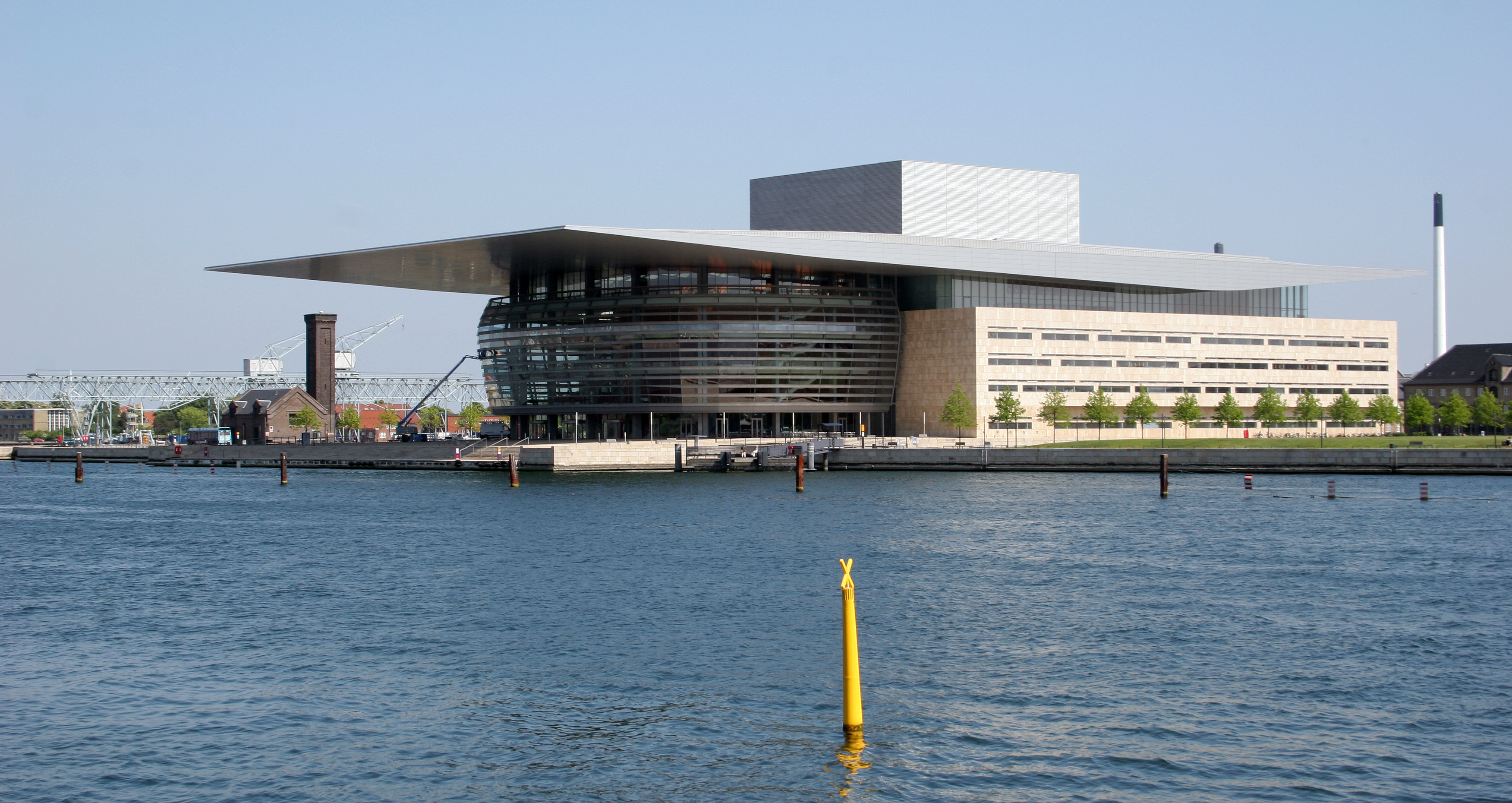 The Opera House in Copenhagen